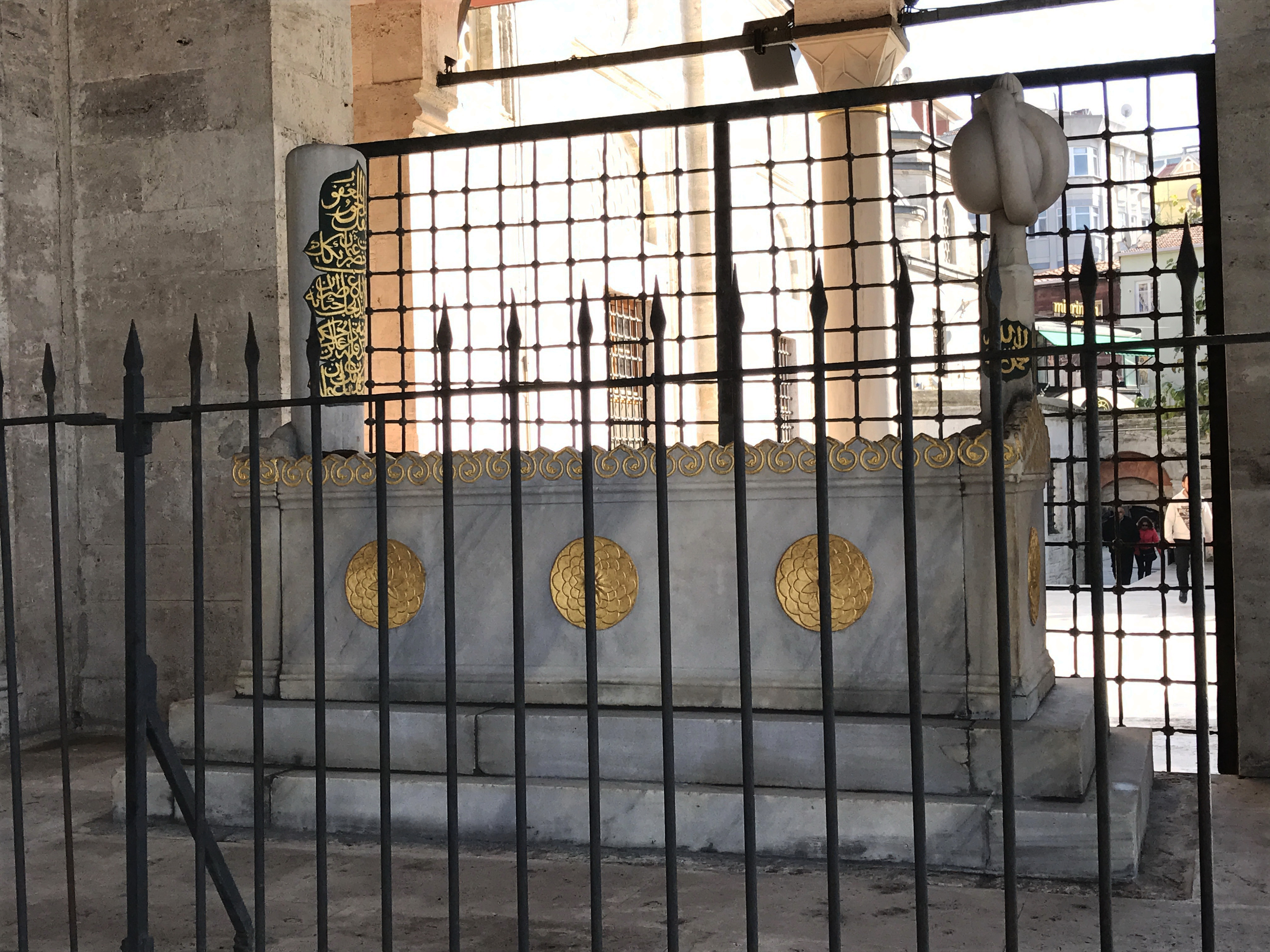 Mihrimah Sultan Mosque (built 1548), is an Ottoman mosque located in the historic center of the Üsküdar municipality in Istanbul, Turkey. It is the first of two mosques built by Mihrimah Sultan, daughter of Sultan Suleiman the Magnificent and wife of Grand Vizier Rüstem Pasha. It was designed by Mimar Sinan and built between 1546 and 1548.